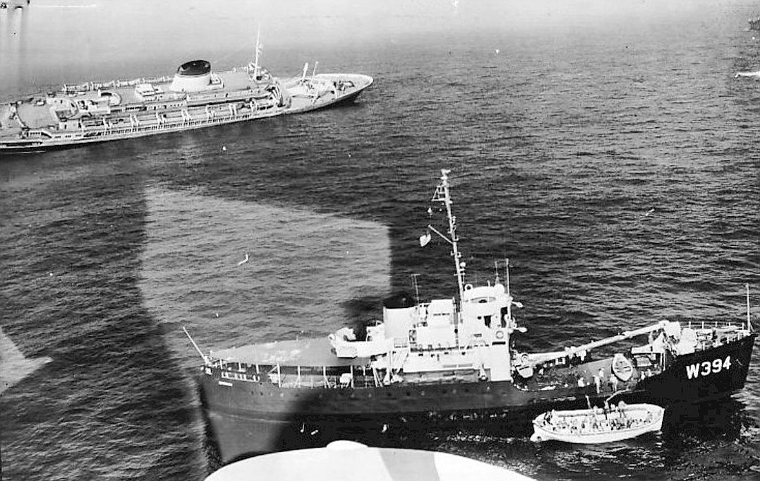 Photo of a lifeboat of passengers from the sinking liner Andrea Doria being rescued by another vessel. Photo identifies the craft as possibly being a buoy tender. Andrea Doria is seen in the background listing to the right--this is the dise where the collision with the Stockholm occurred. There are shadows on the photo because it was taken from a plane window. The plane's wing tip can be seen in the lower portion of the photo.